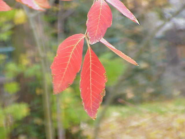 Species: Acer maximowiczianum Family: Aceraceae Image No. 1